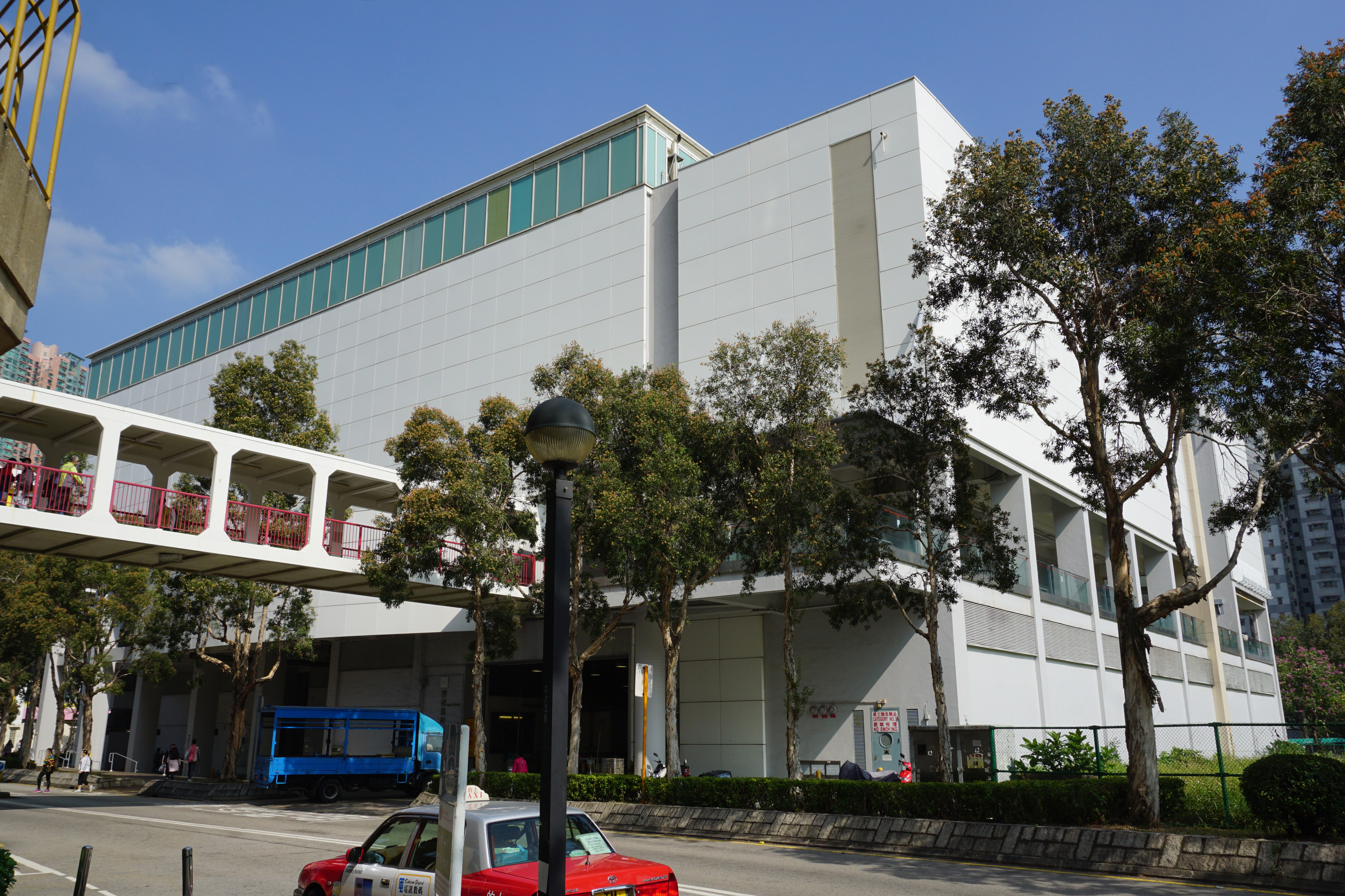 Municipal Services Building in Tsing Yi, Hong Kong.